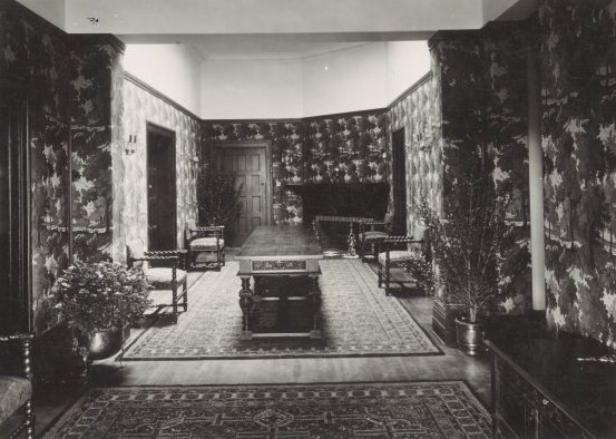 Main entrance hall with table, Government House, Canberra, 1927.